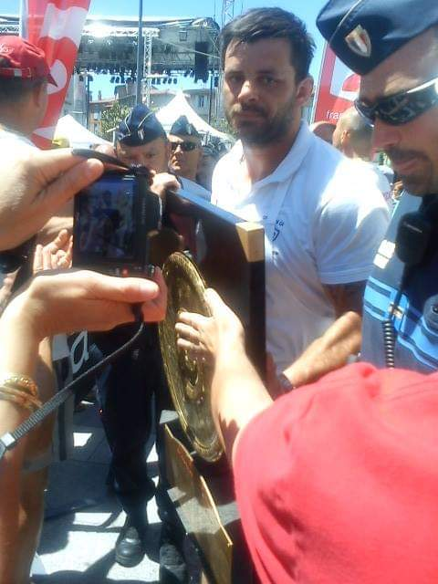 Place Jean Jaurès Castres, Rodrigo Capo Ortega avec Bouclier de Brennus 2013.